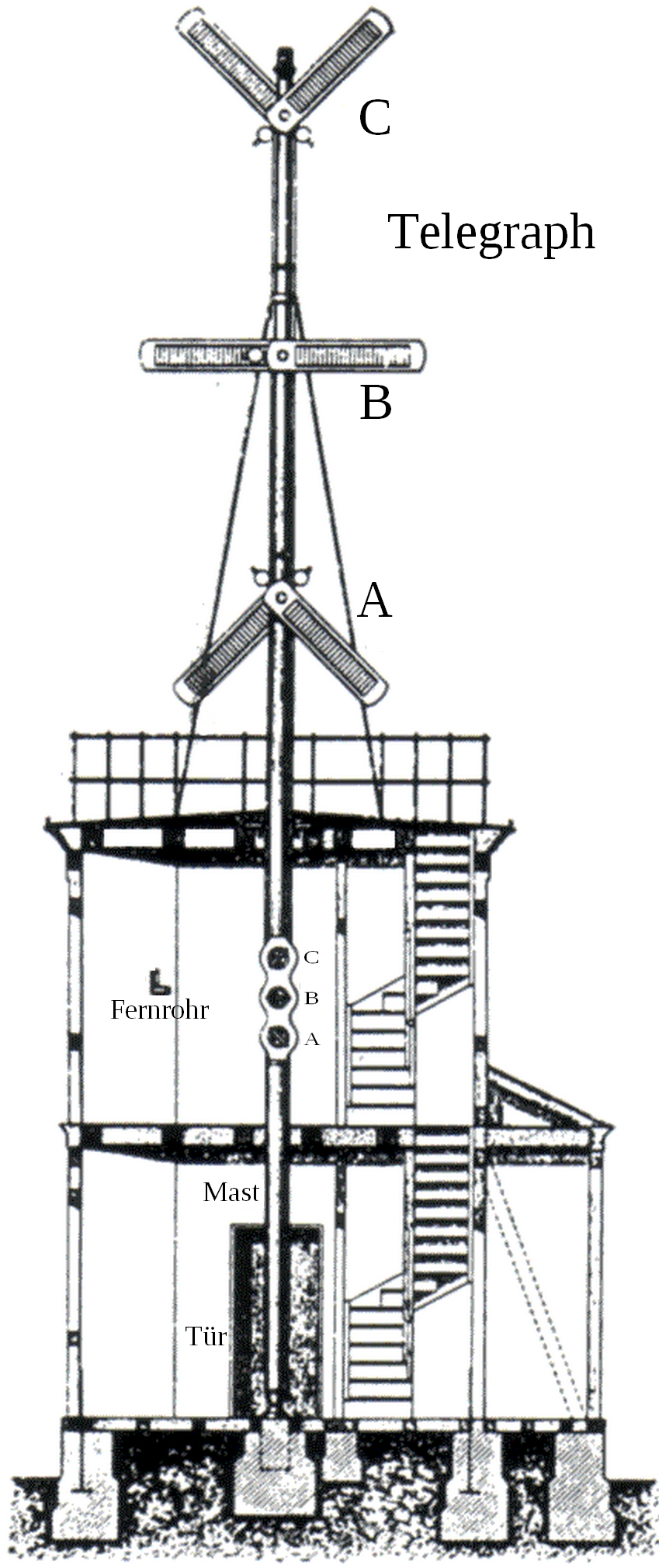 Construction of prussian optical telegraph